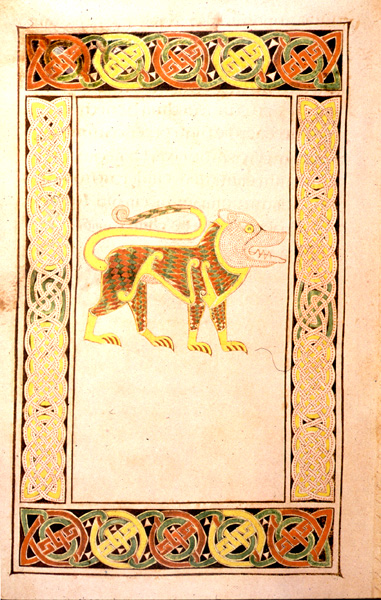 The Book of Durrow is unusual in that it does not use the traditional scheme, usual since Saint Jerome, for assigning the symbols to the Evangelists. Each Gospel begins with an Evangelist's symbol – a man for Matthew, an eagle for Mark (not the lion traditionally used), a calf for Luke and a lion for John (not the eagle traditionally used). This is also known as the pre-Vulgate arrangement.